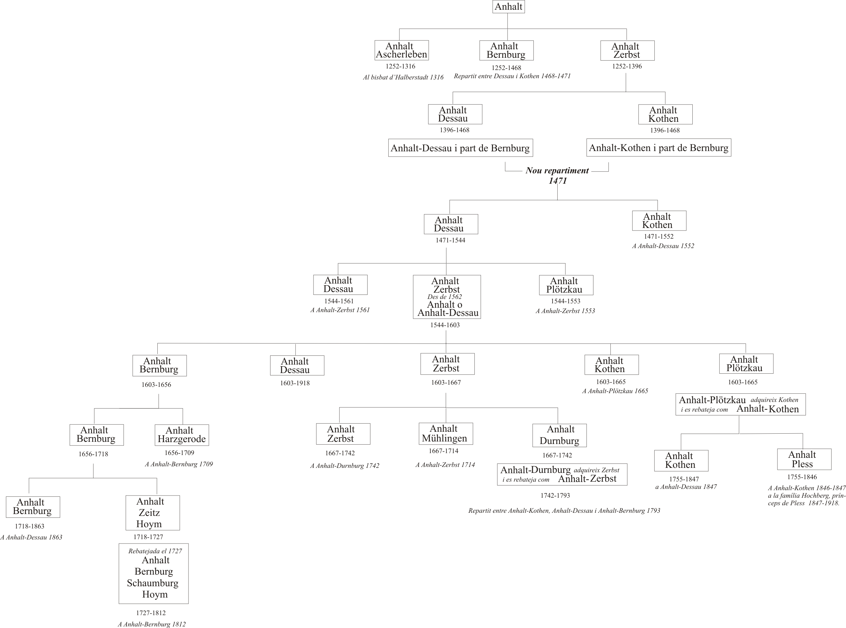 Anhalt's House lines (second correction)